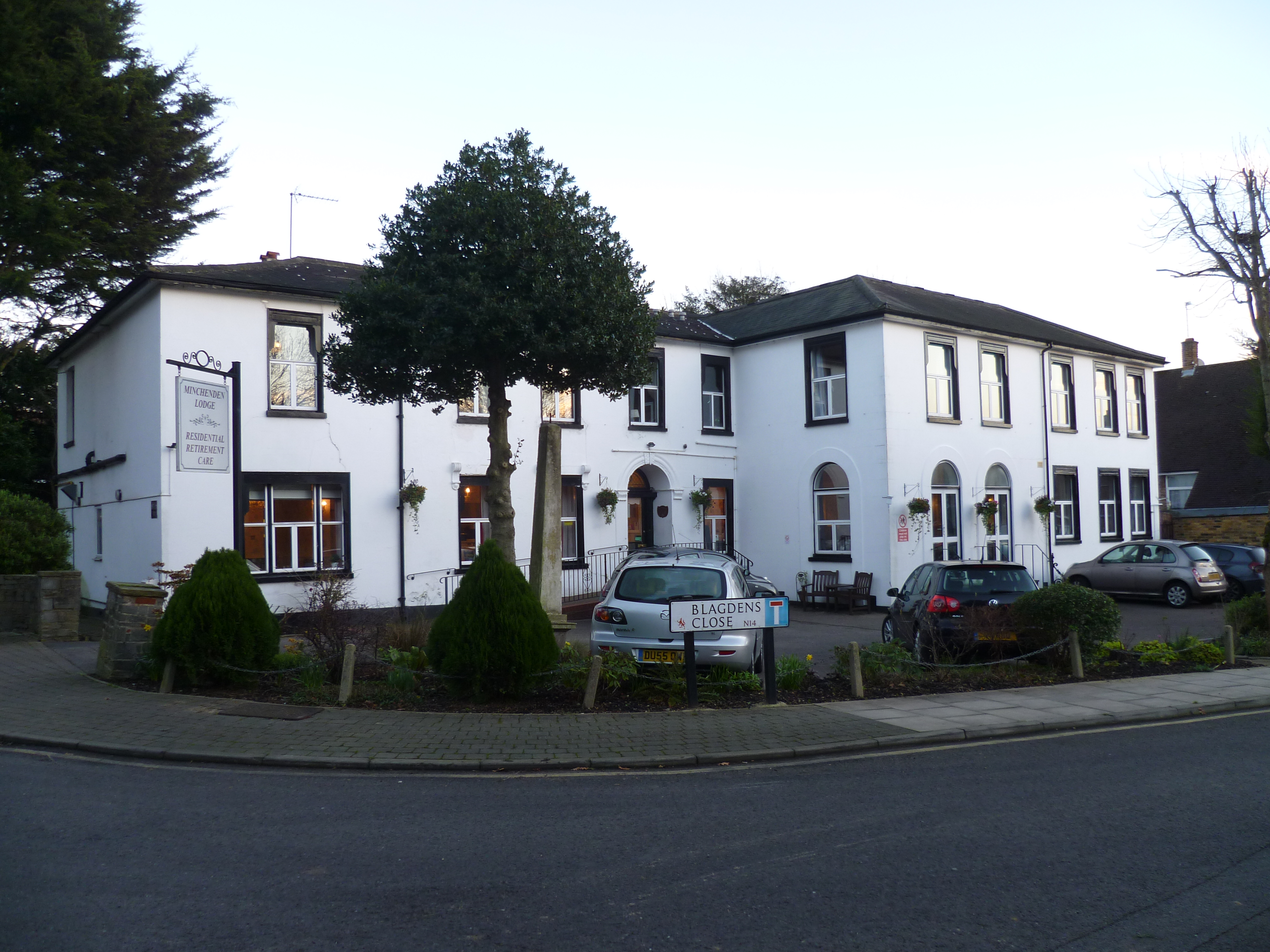 London